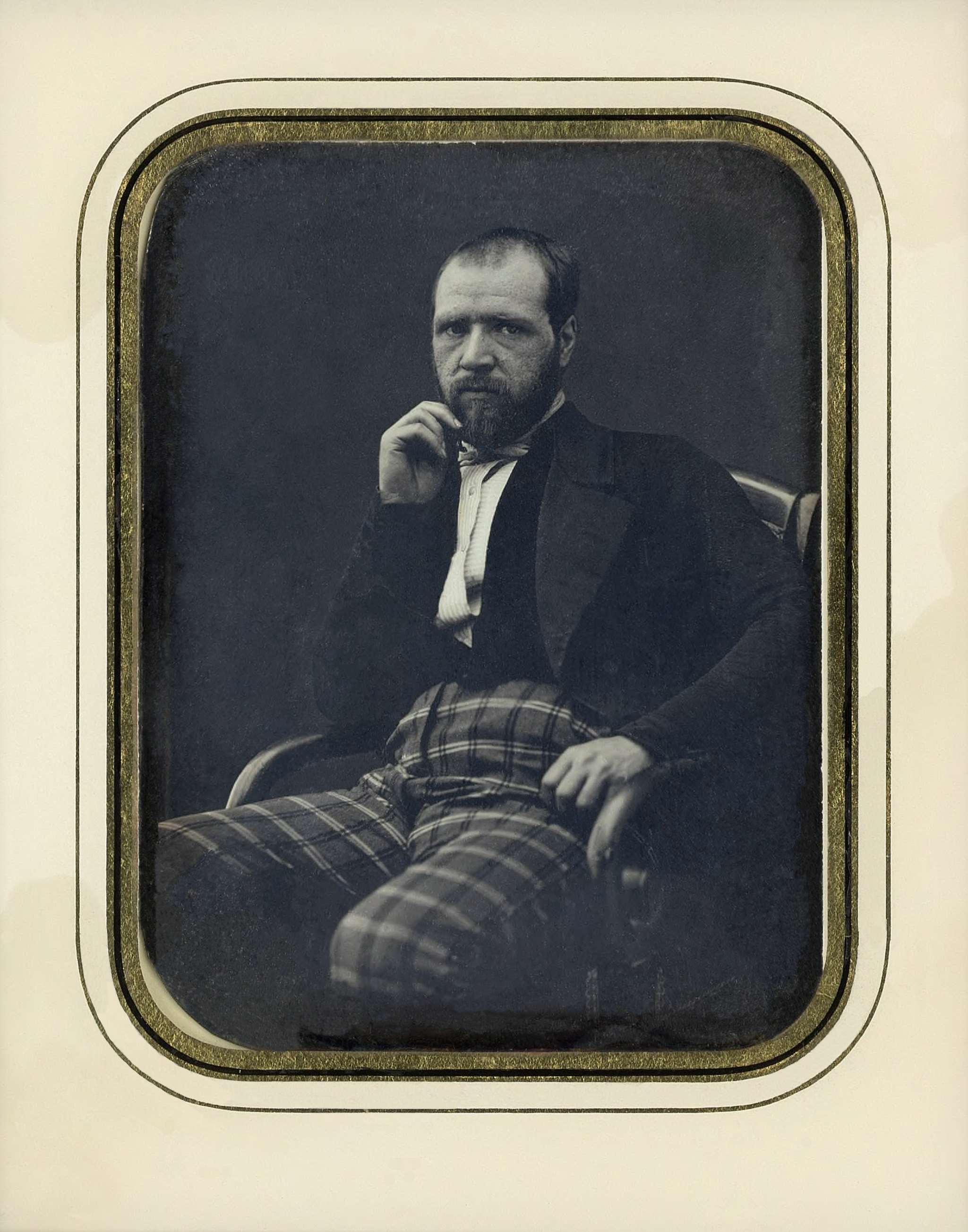 Alphonse Poitevin (1819 - 1882), french photographer. Selfportrait. Direct positive photograph on silver copper, daguerreotype.